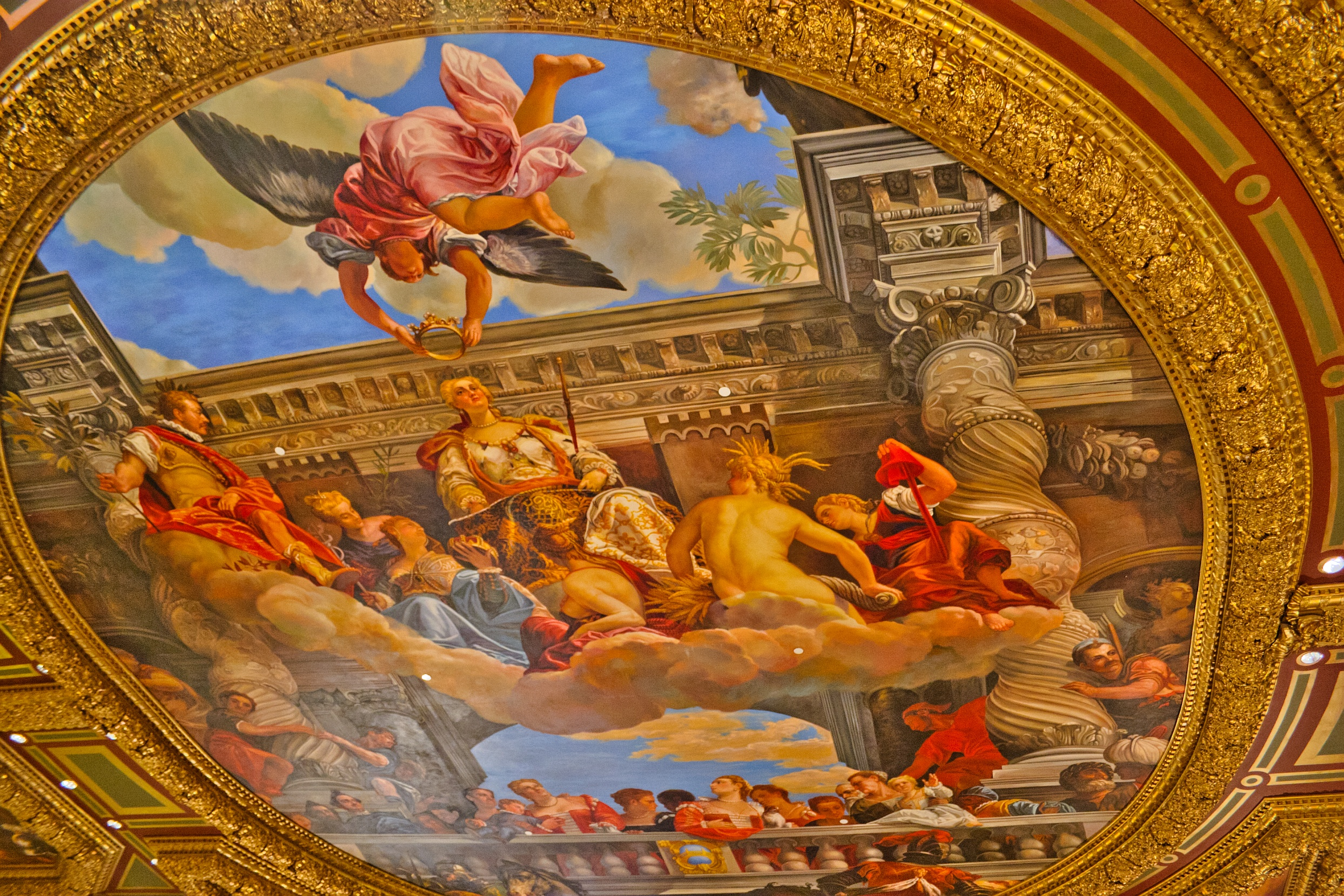 The centerpiece of the Grand Canal Shoppes entrance ceiling mural